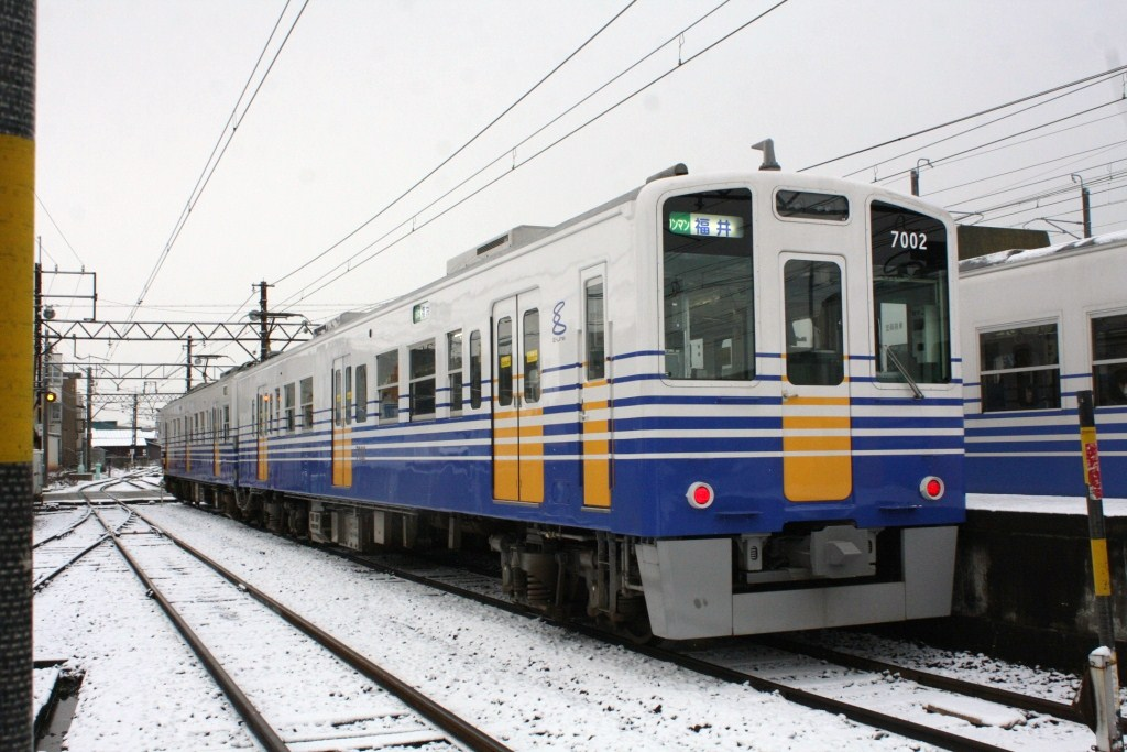 Echizen Railway 7000 series EMU set 7001+7002